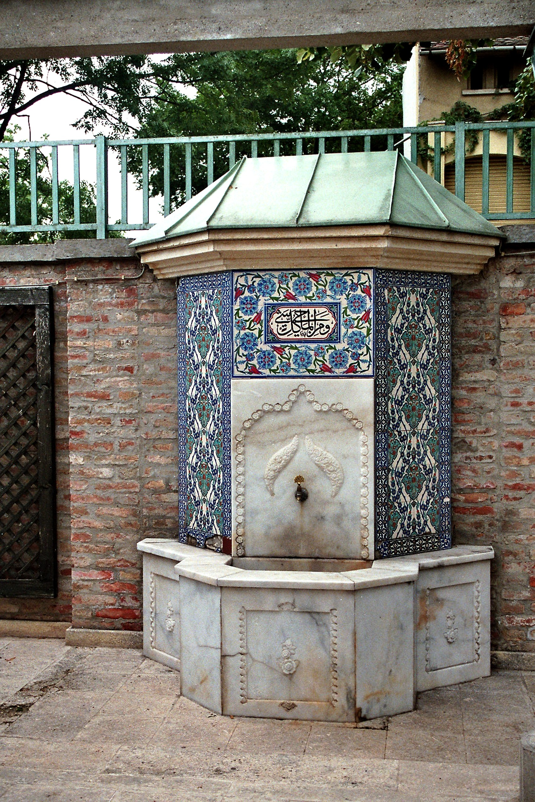 Budapest, fountain nearby of the mausoleum of Gül Baba